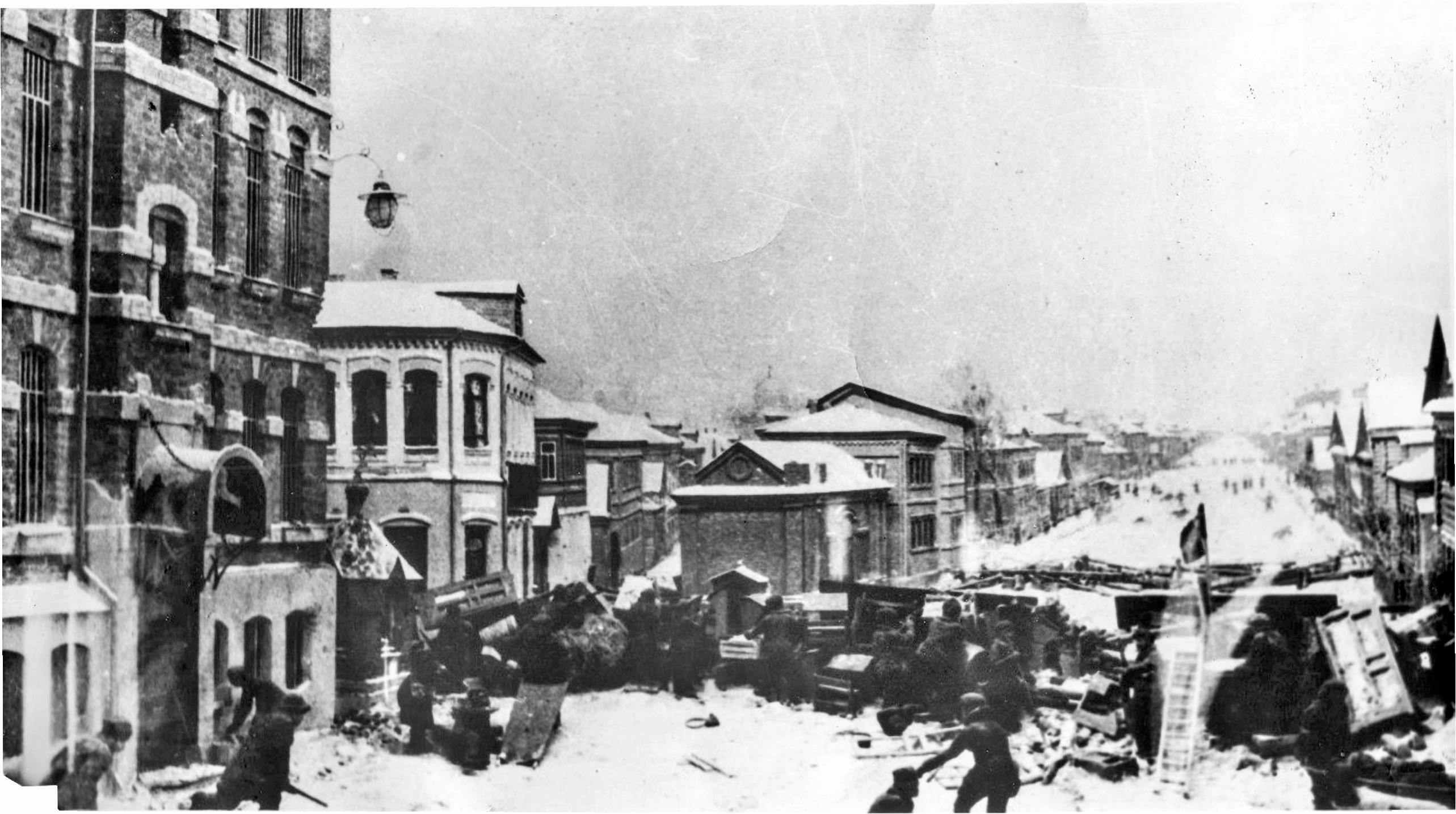 Building barricades in Sormovo, during the December uprising of 1905